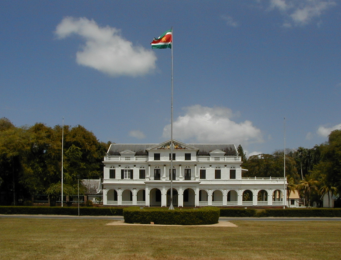 The Presidential Palace in the city of Paramaribo, Suriname.